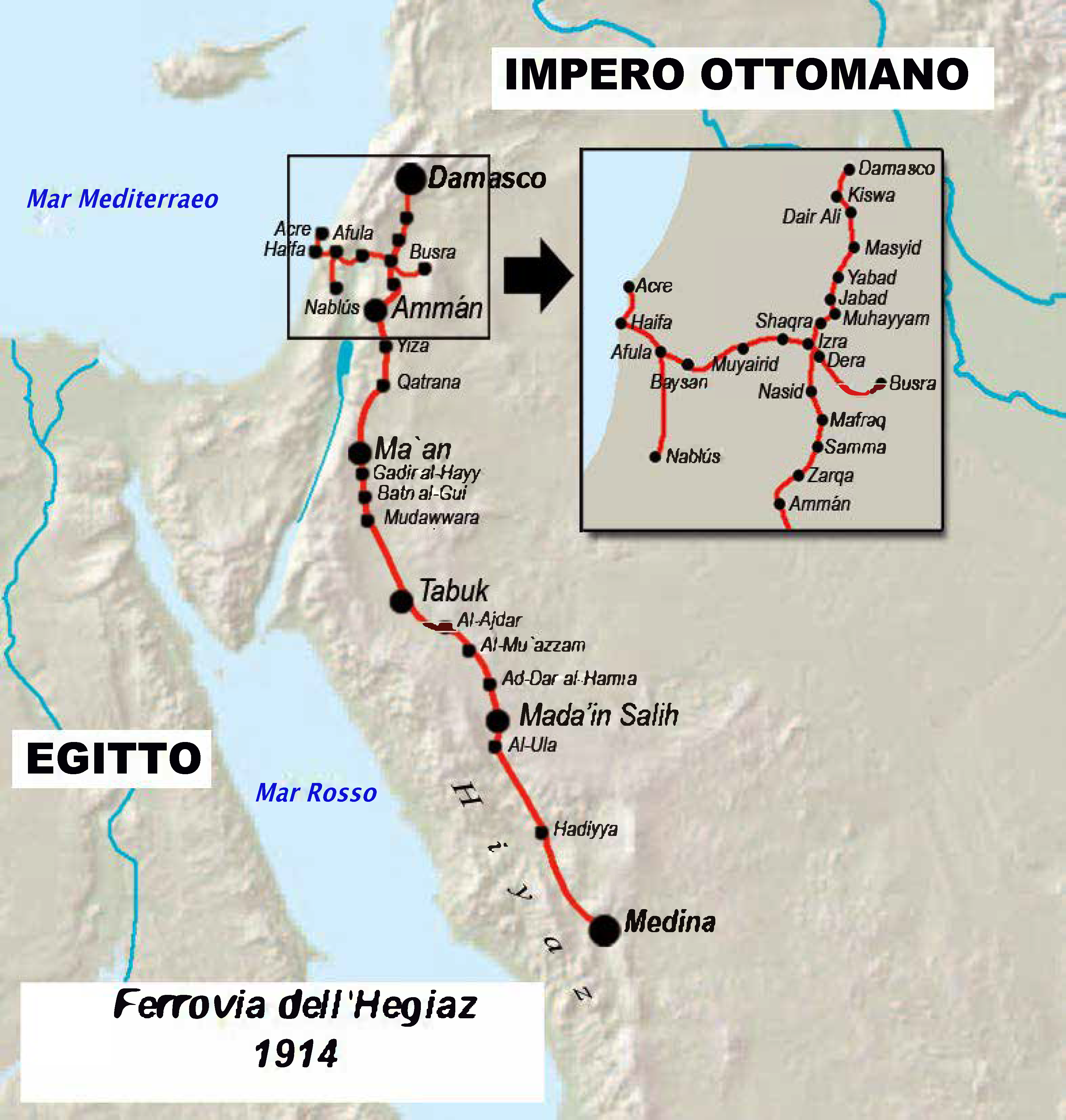 Map of the Hejaz railway (Damascus-Mecca pilgrim route); built at great expense by the Ottoman empire in the early 20th century, but quickly fell into disrepair after the Arab revolt of 1917.